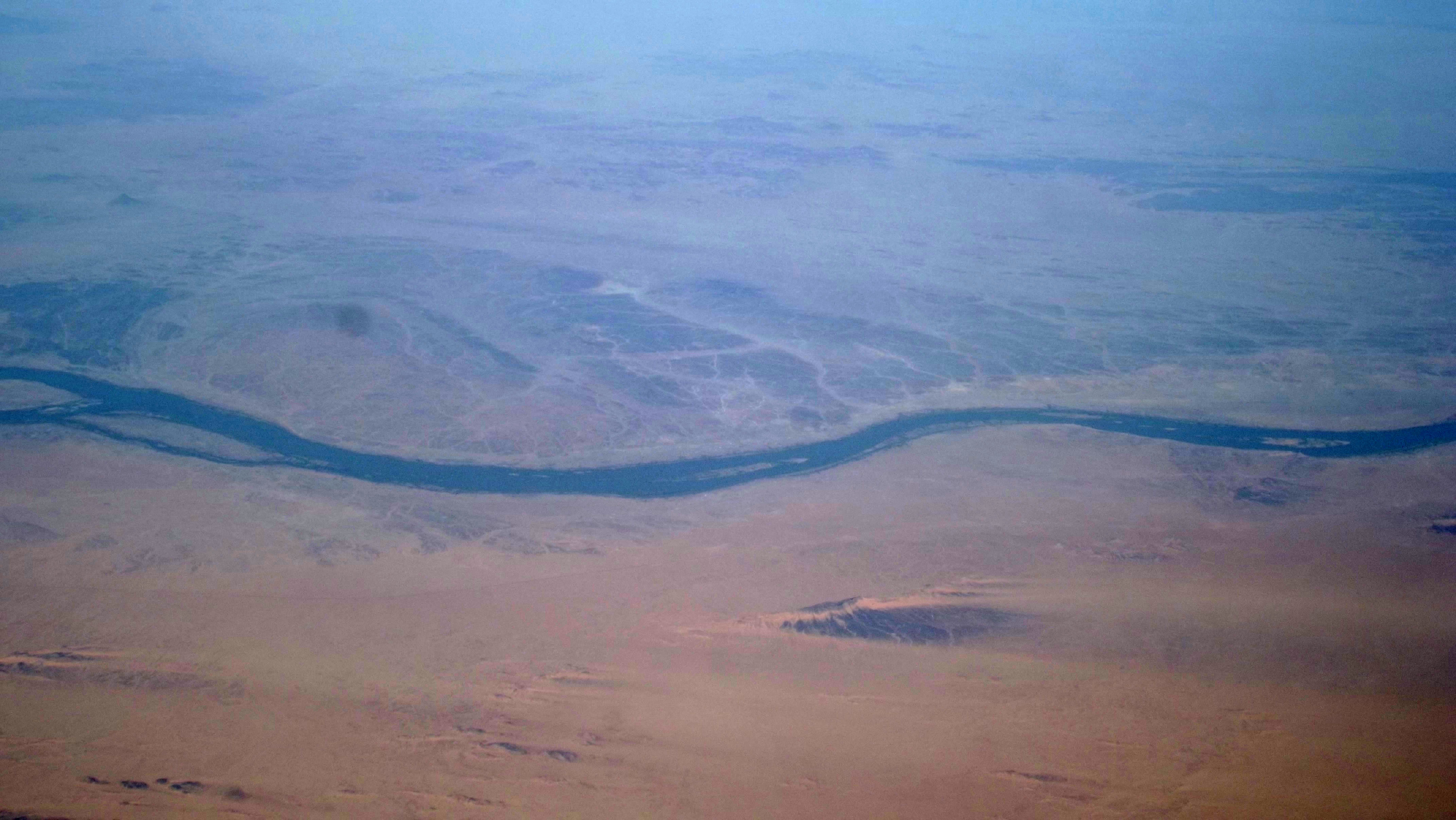 The Nile seen from airplane. Sudan